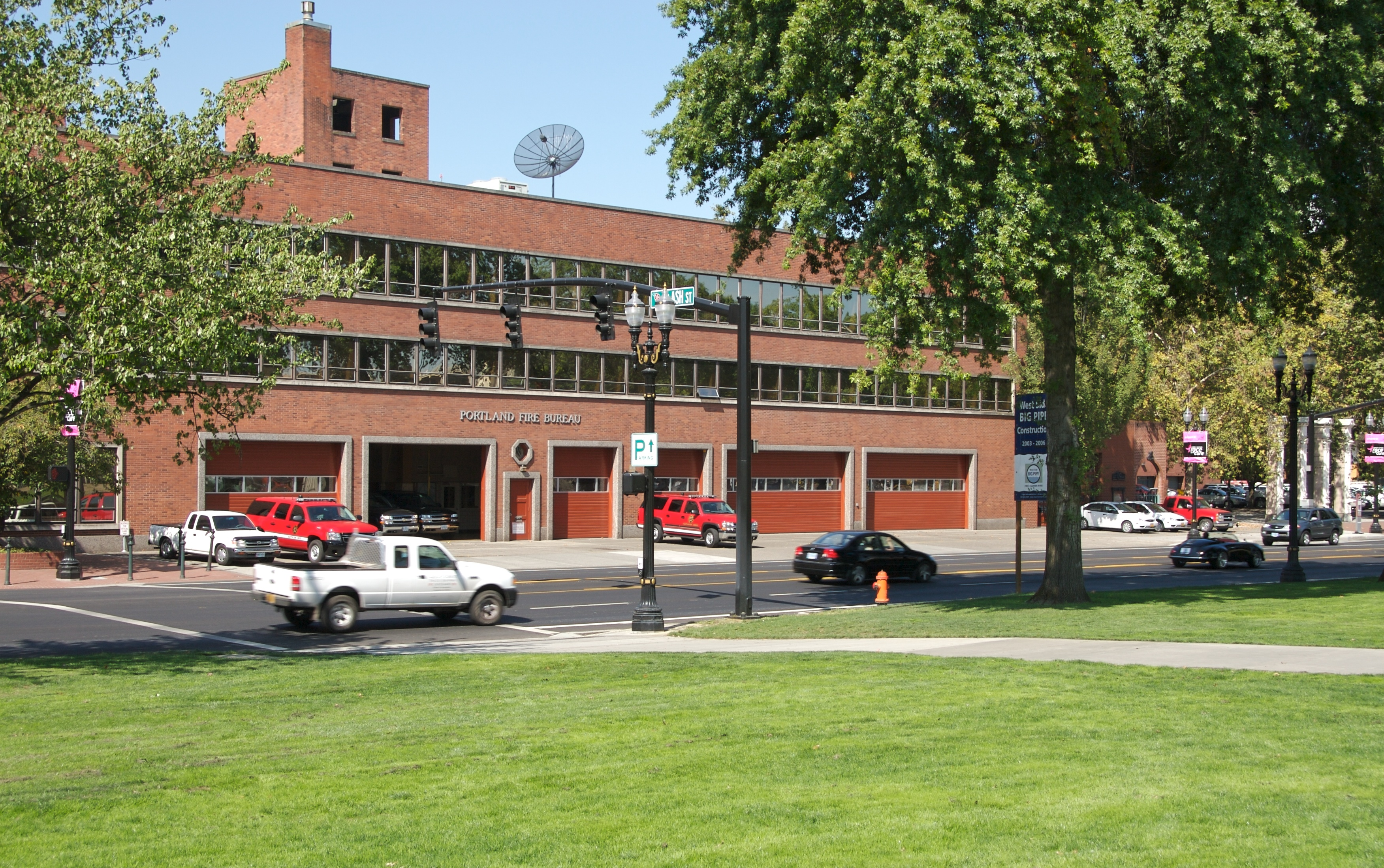 Portland Fire Bureau station at SW Naito Parkway and Ash Street, in downtown Portland